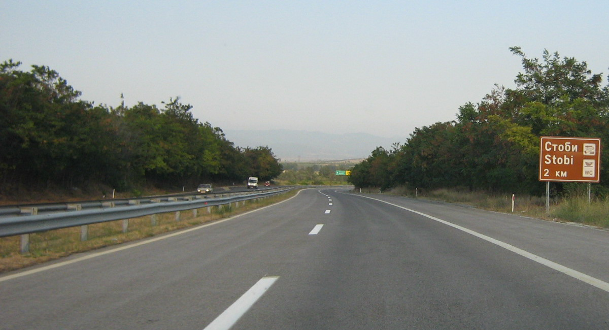 E75 in Macedonia, locally M-1.